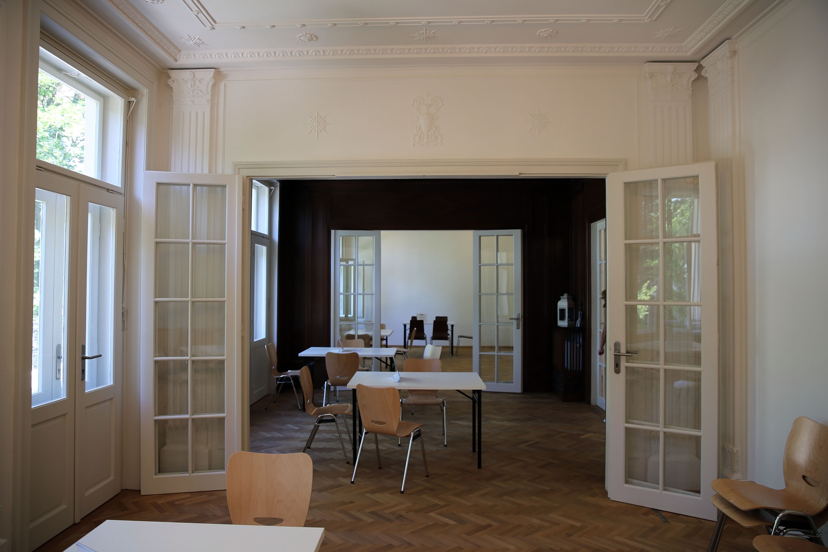 Upper floor of the so called Klimt Villa, Gustav Klimt's last residence in Vienna, Austria, from 1911 to 1918.